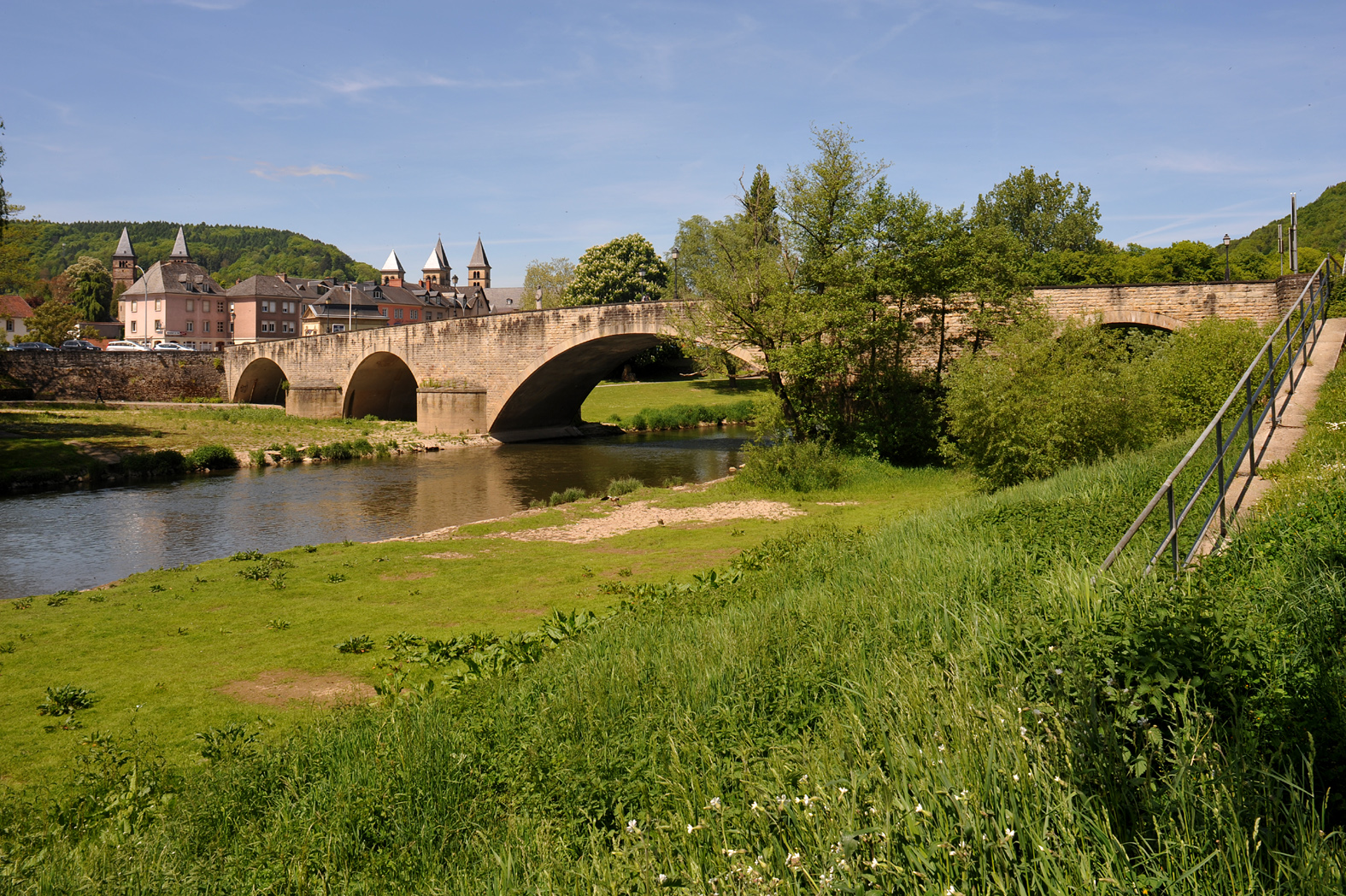 Old bridge over the Sauer in Echternach; Echternach, Luxembourg and Rhineland-Palatinate, Germany.